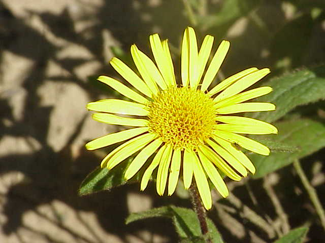 Species: Inula hirta Family: Compositae Image No. 1